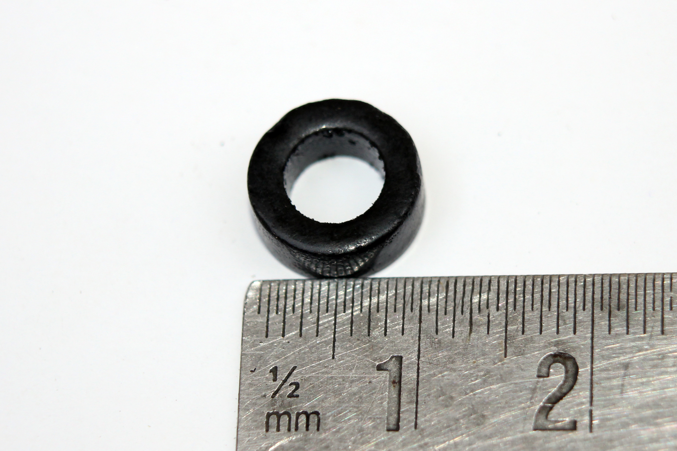 T-10 Ferrite Core 10 stands for OD in mm